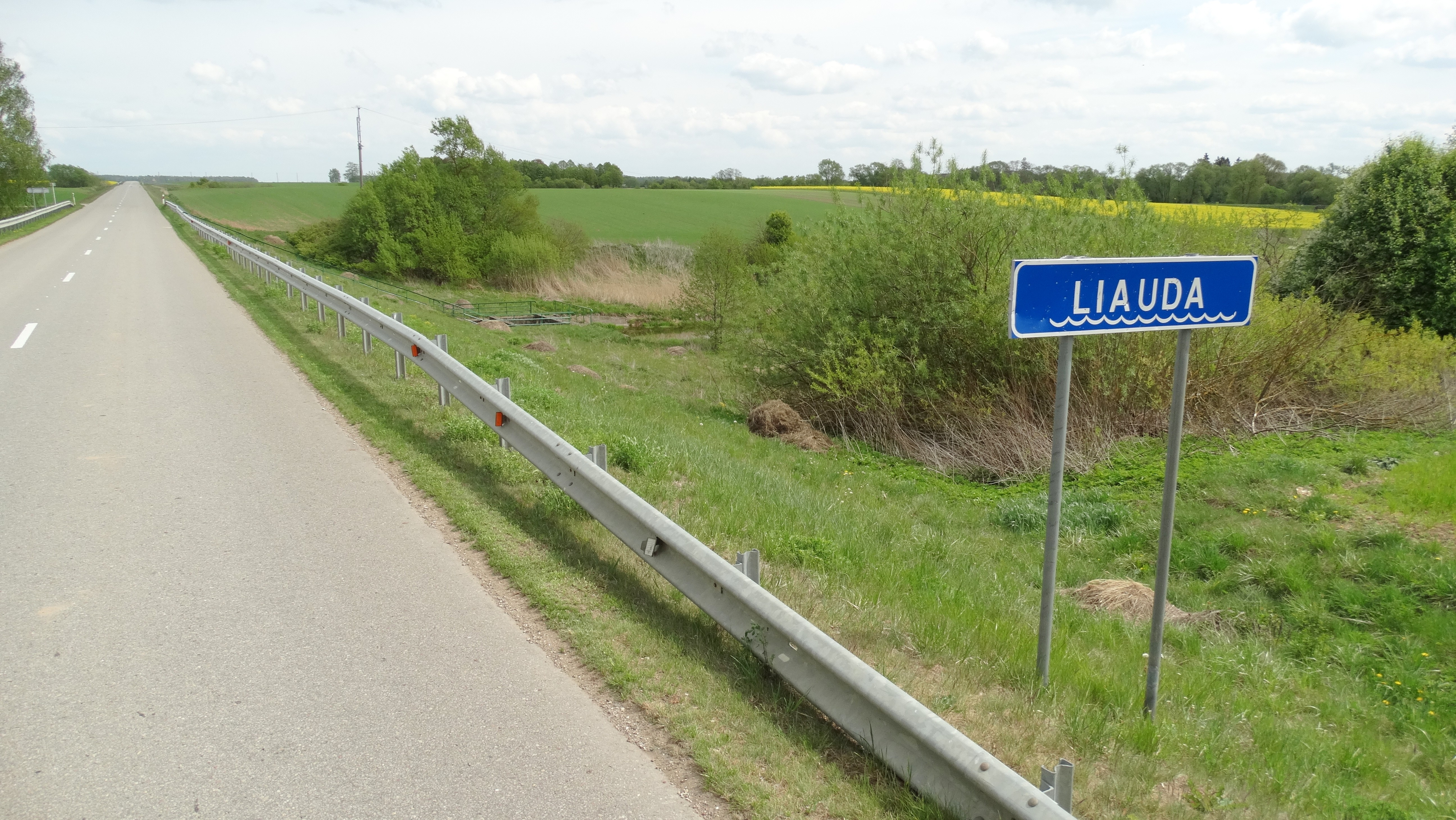 Liauda stream, Pociūnėliai, Radviliškis District, Lithuania